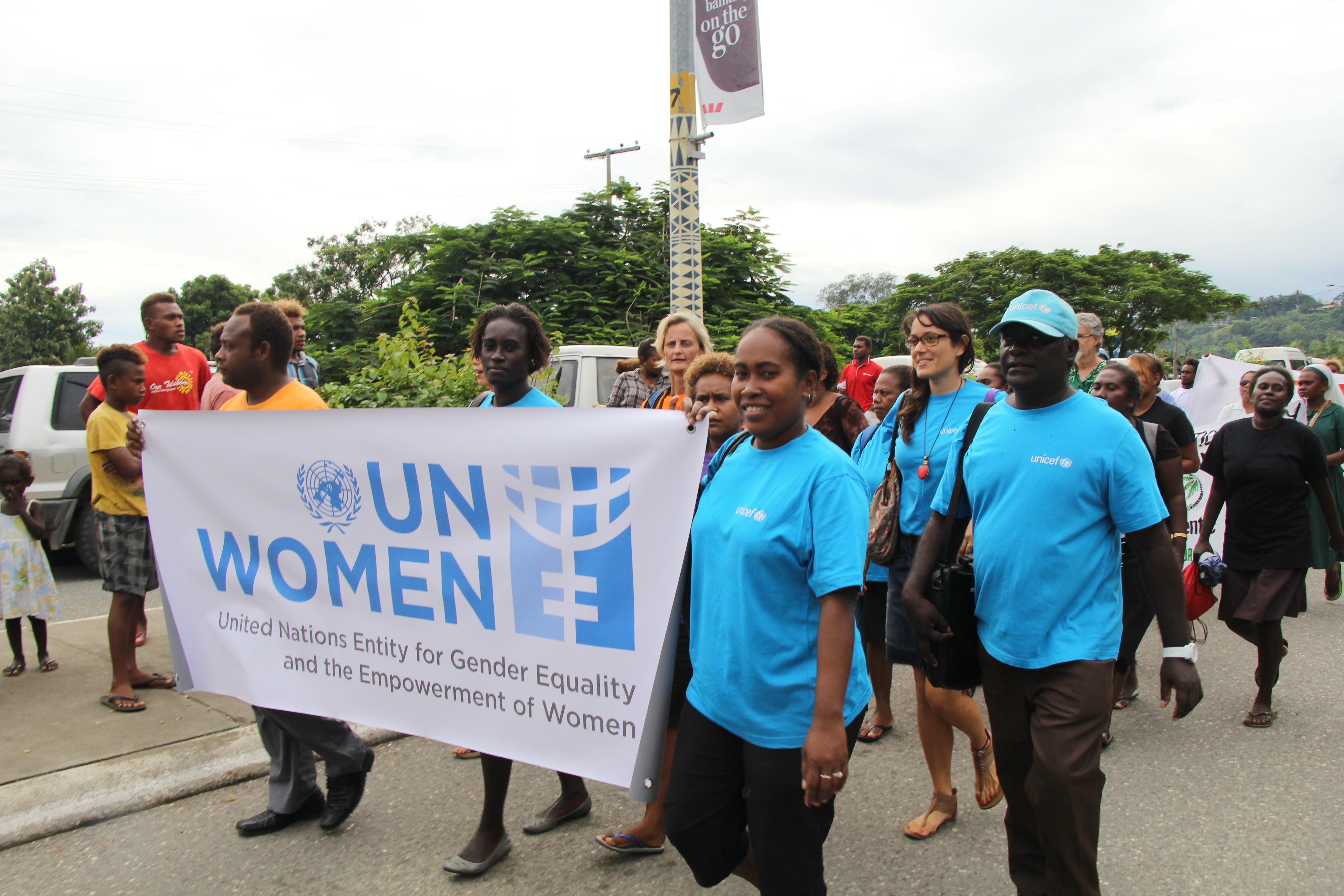 UN Women and UNICEF staff participating in the IWD 2014 parade. Photo: UN Women/Marni Gilbert